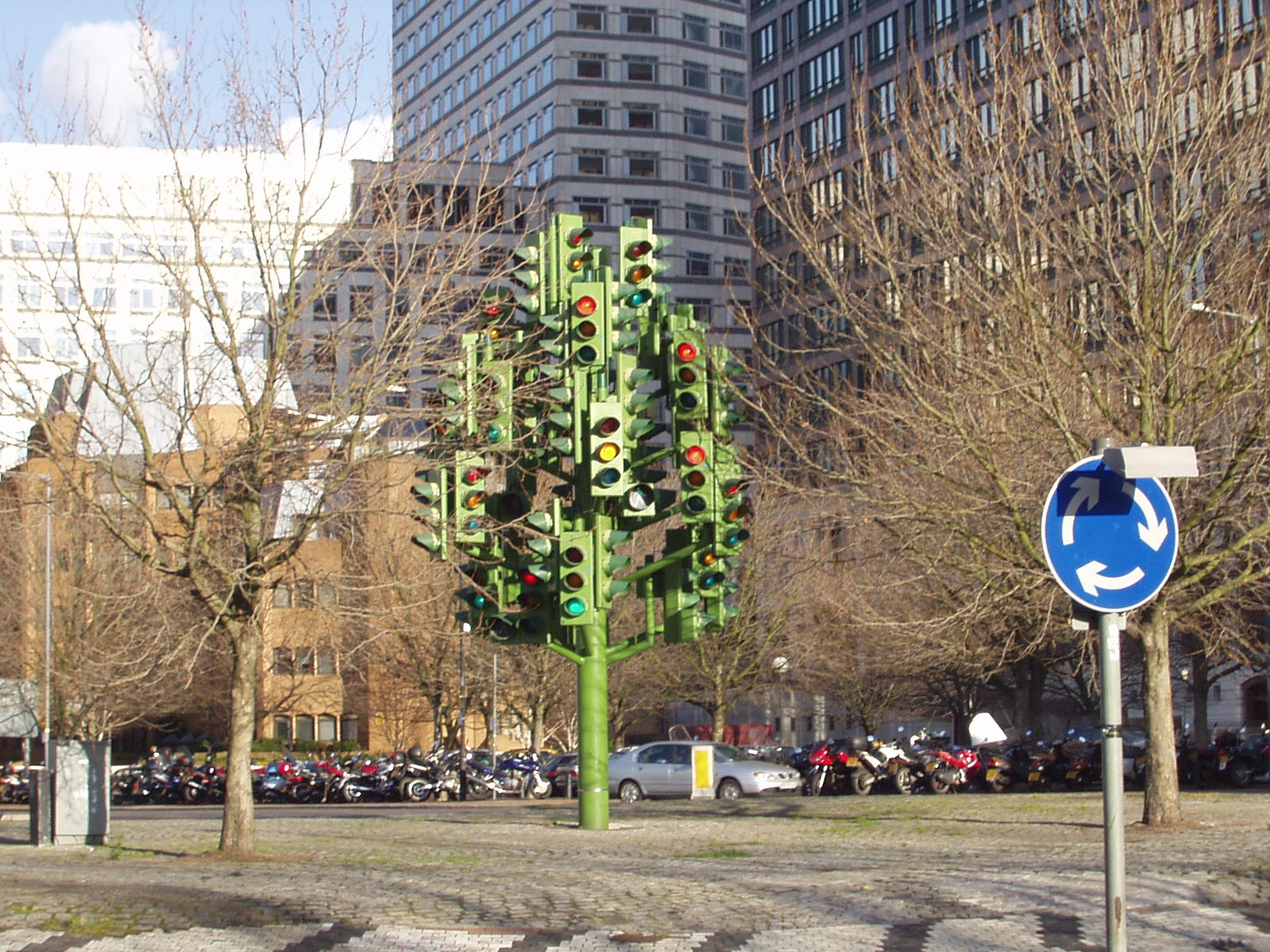 Traffic Light Tree (1997) by Pierre Vivant in London E14